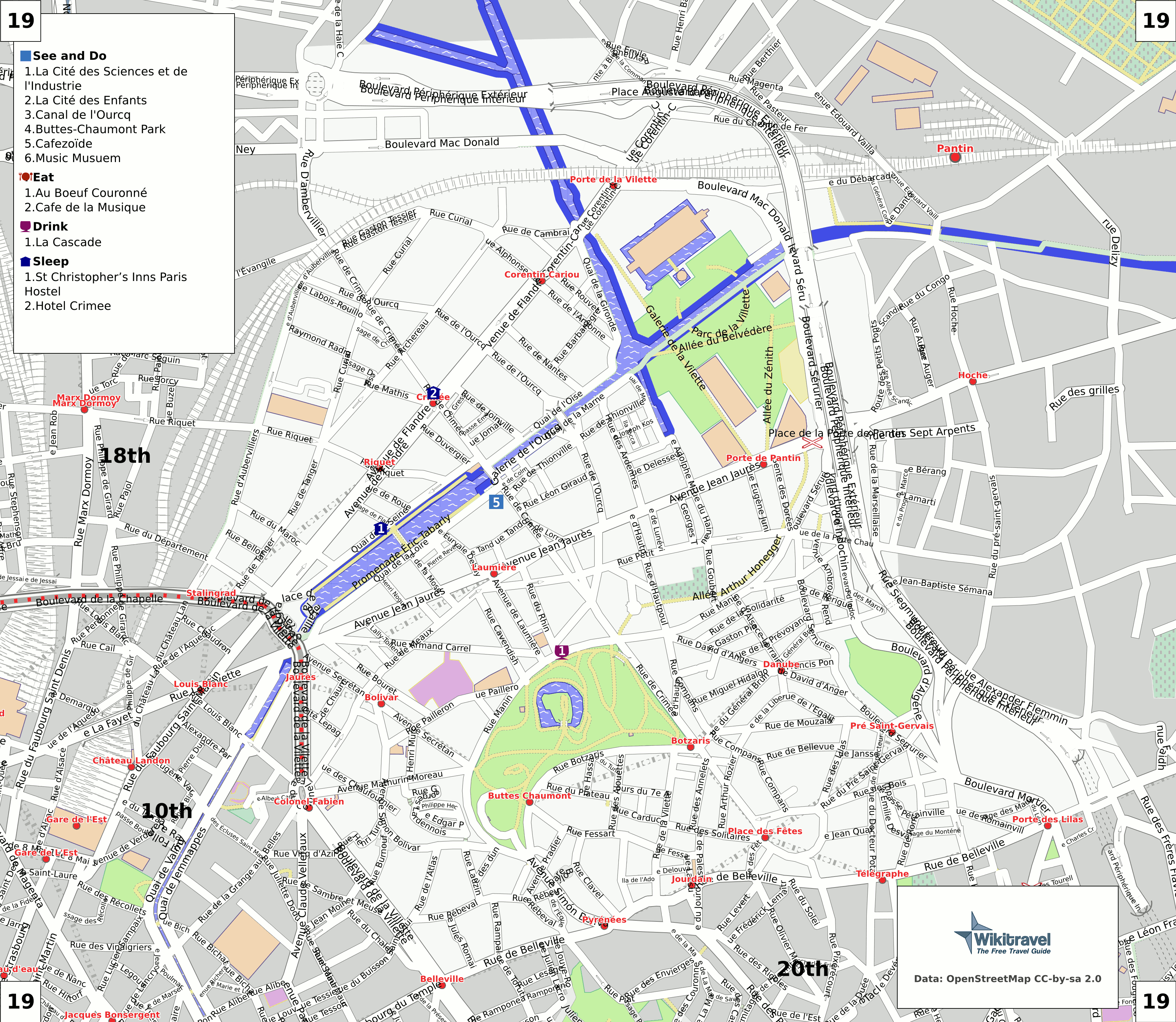 Map of the 19st arrondissement of Paris.